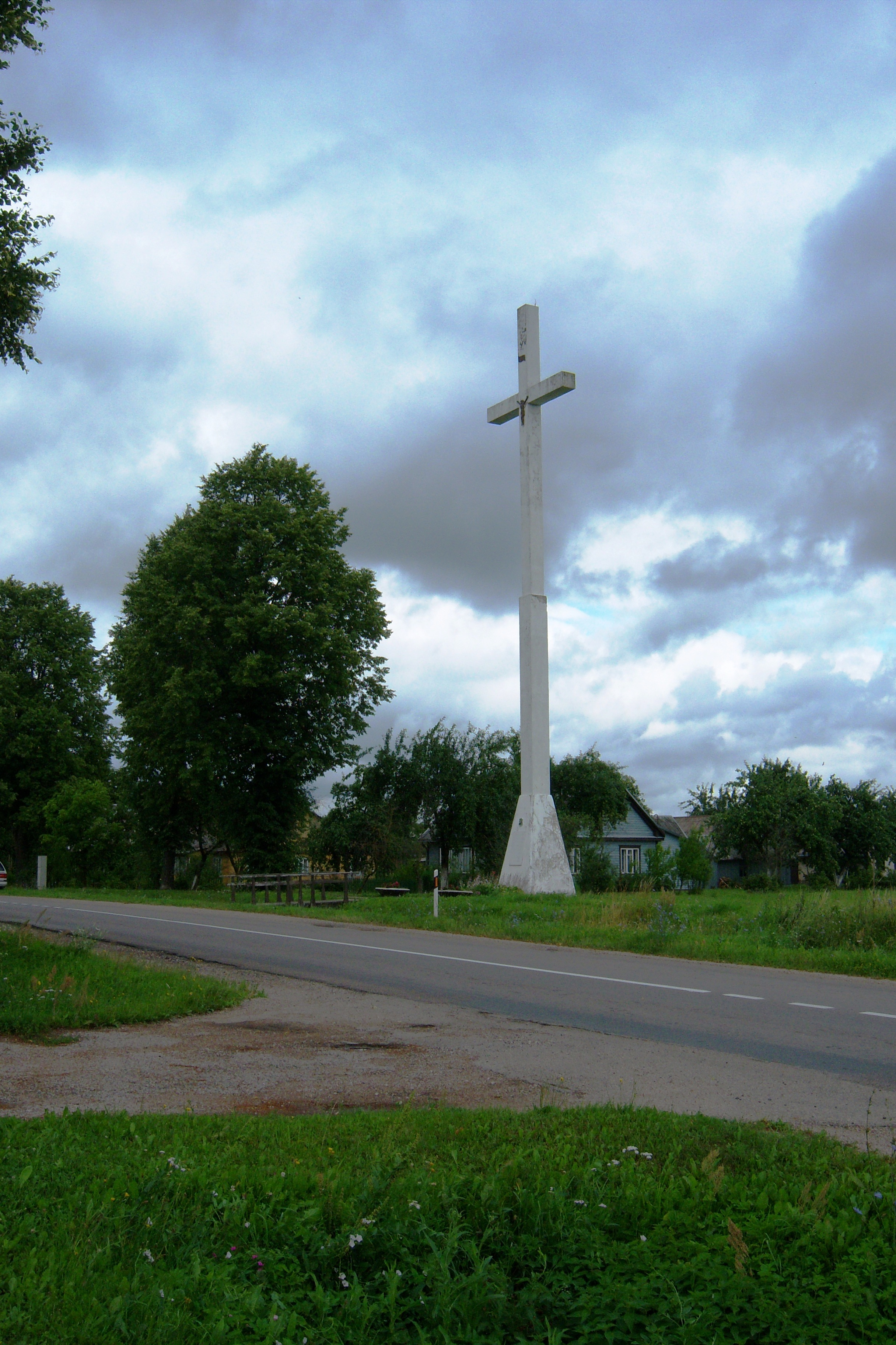 Tallest Concrete Cross of Lithuania, Kavarskas, Anykščiai district